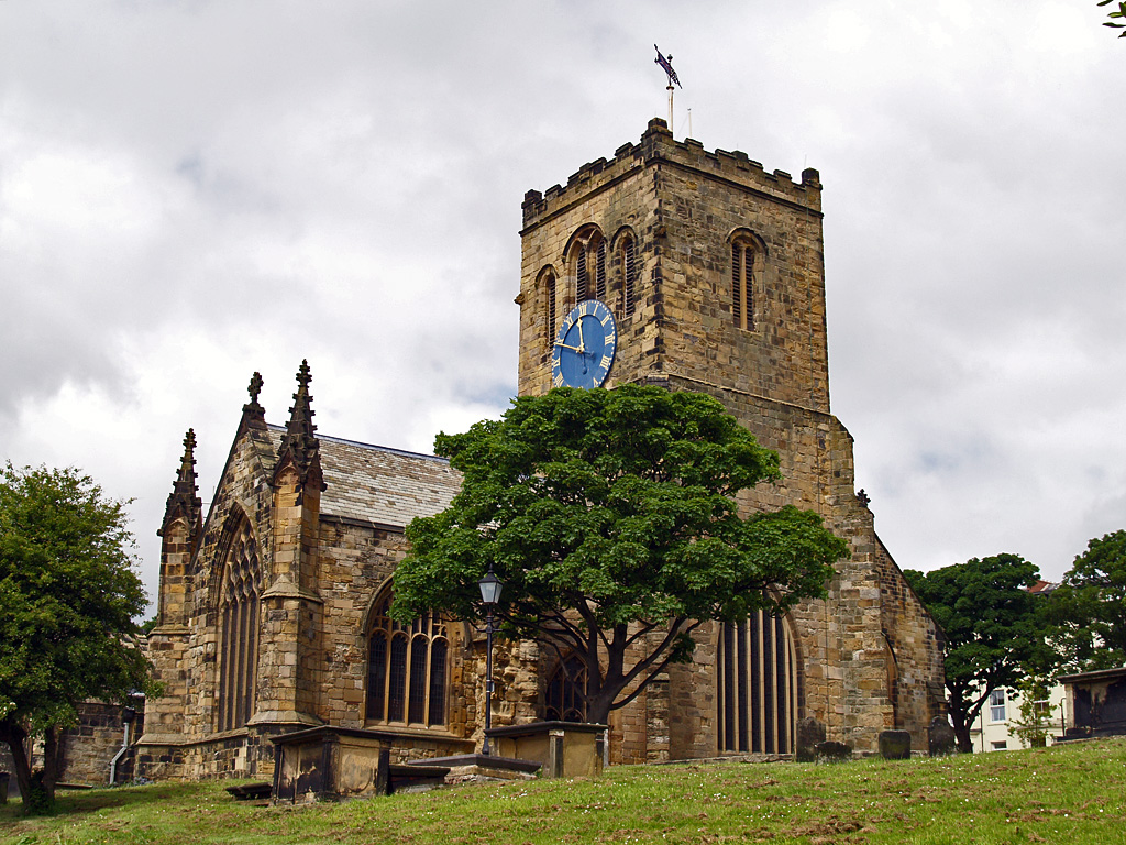 St. Mary's Church, Scarborough, North Yorkshire, England.